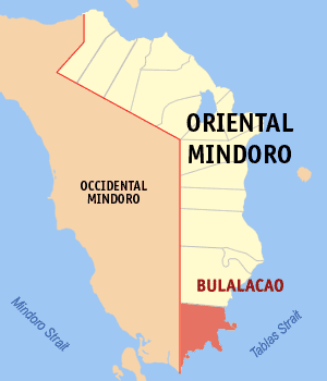 Map of Oriental Mindoro showing the location of Bulalacao